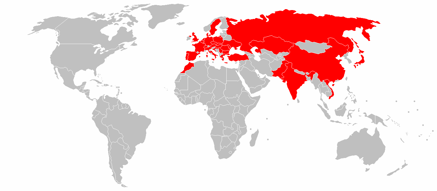 Countries where Group Metro is present.